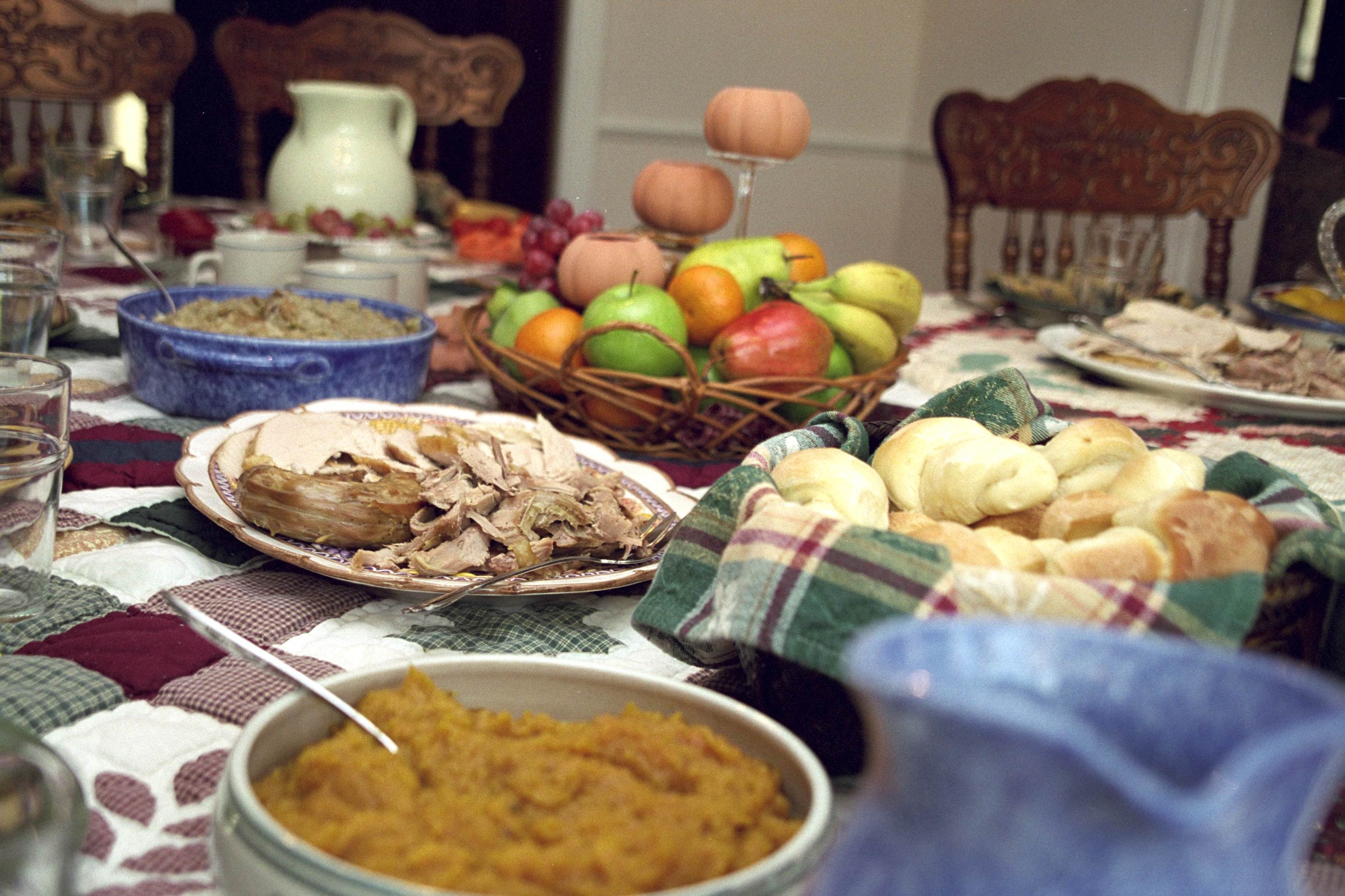 Photo showing some of the aspects of a traditional American Thanksgiving day dinner.